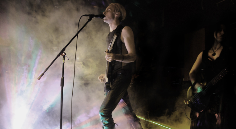 The Awakening live on tour in the US, 2009